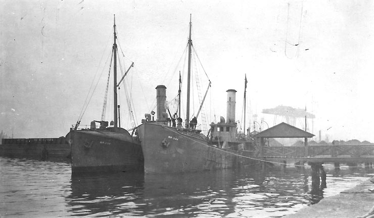 United States Navy minesweeper USS Comber (SP-344) (right) tied up to port of minesweeper USS Crest (SP-339)